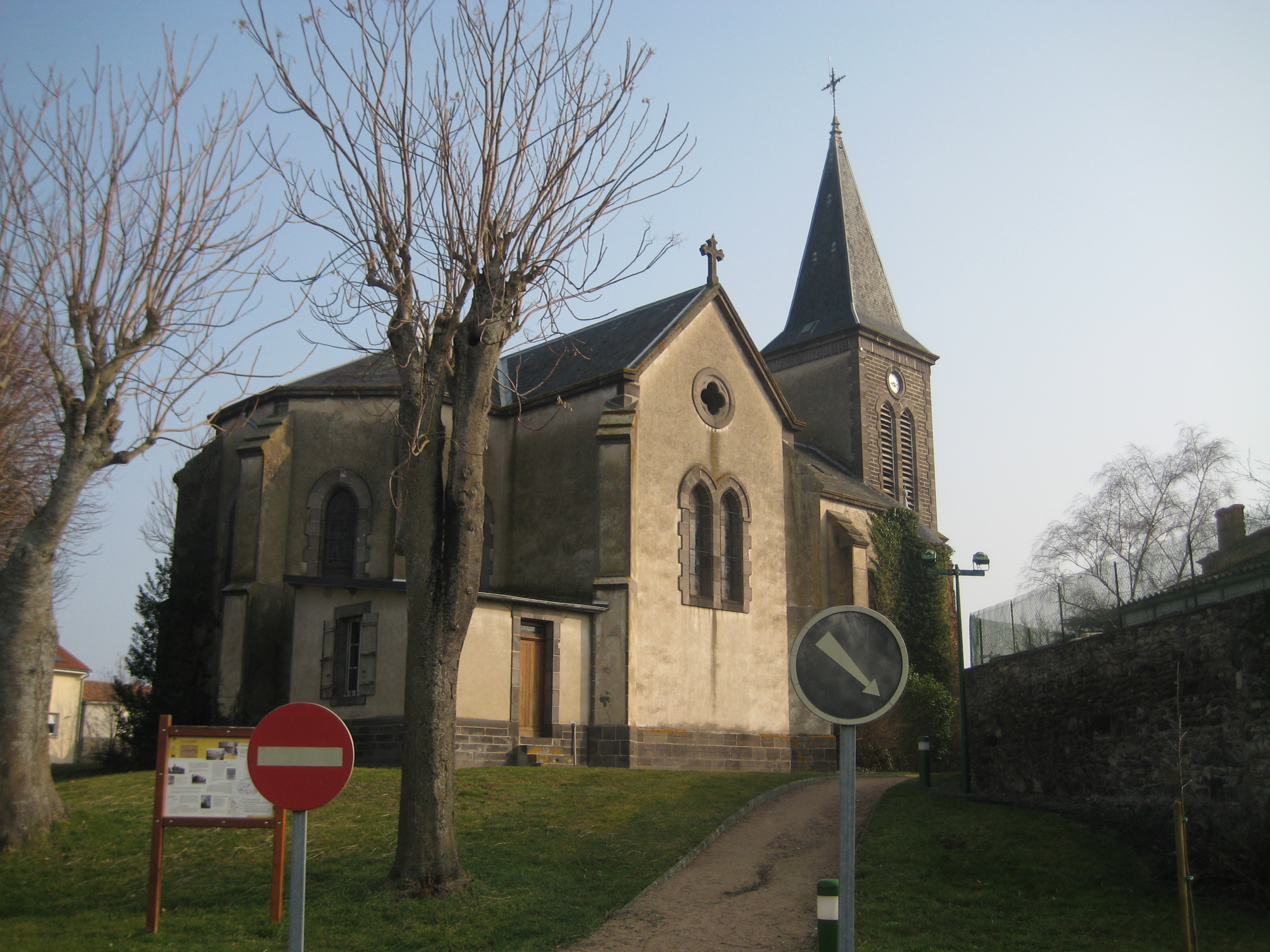 Church of Lussat, Puy de dôme